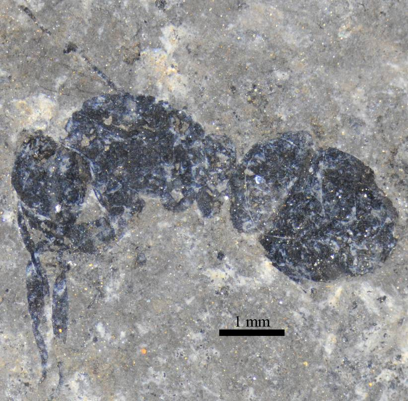 Lateral view of the Protopone vetula holotype. Specimen SMFMEI7679